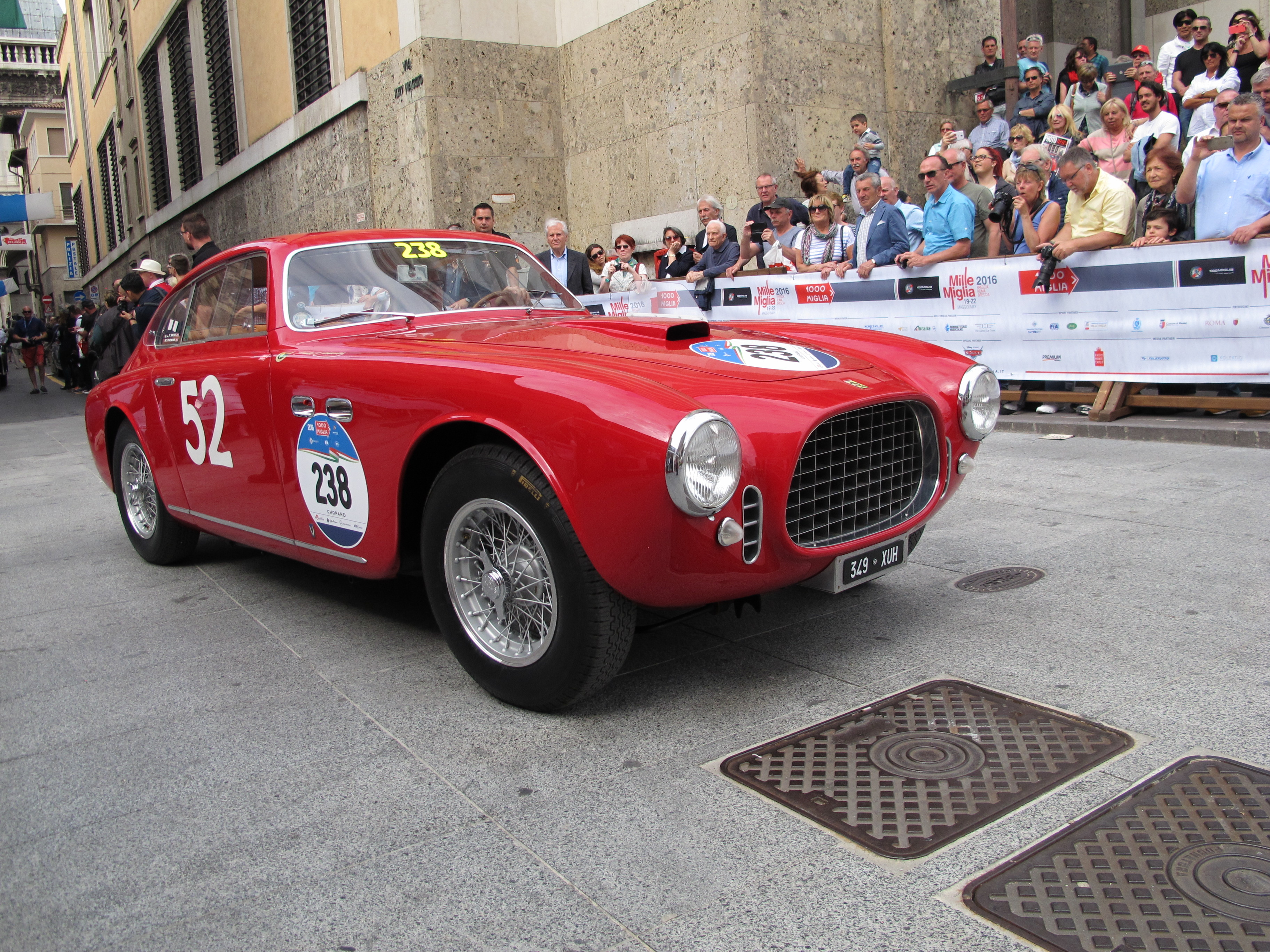 A Ferrari 212 Inter Vignale at the 2016 Mille Miglia Storica sealing ceremony.